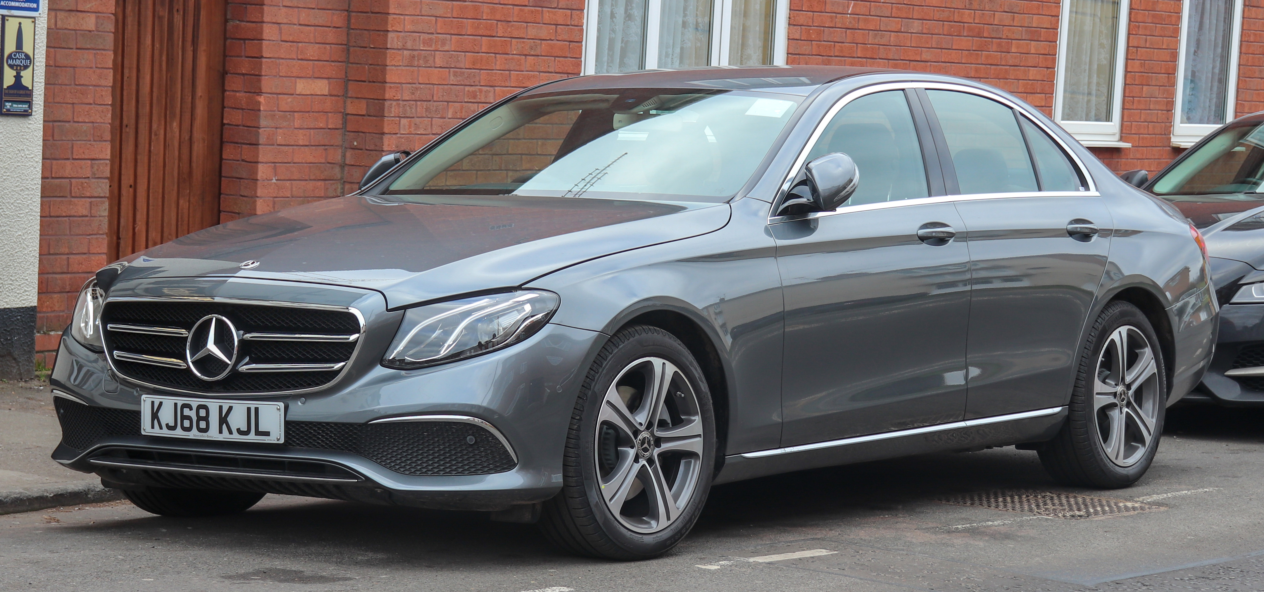 2019 Mercedes-Benz E220d SE Automatic 2.0 Front Taken in Warwick